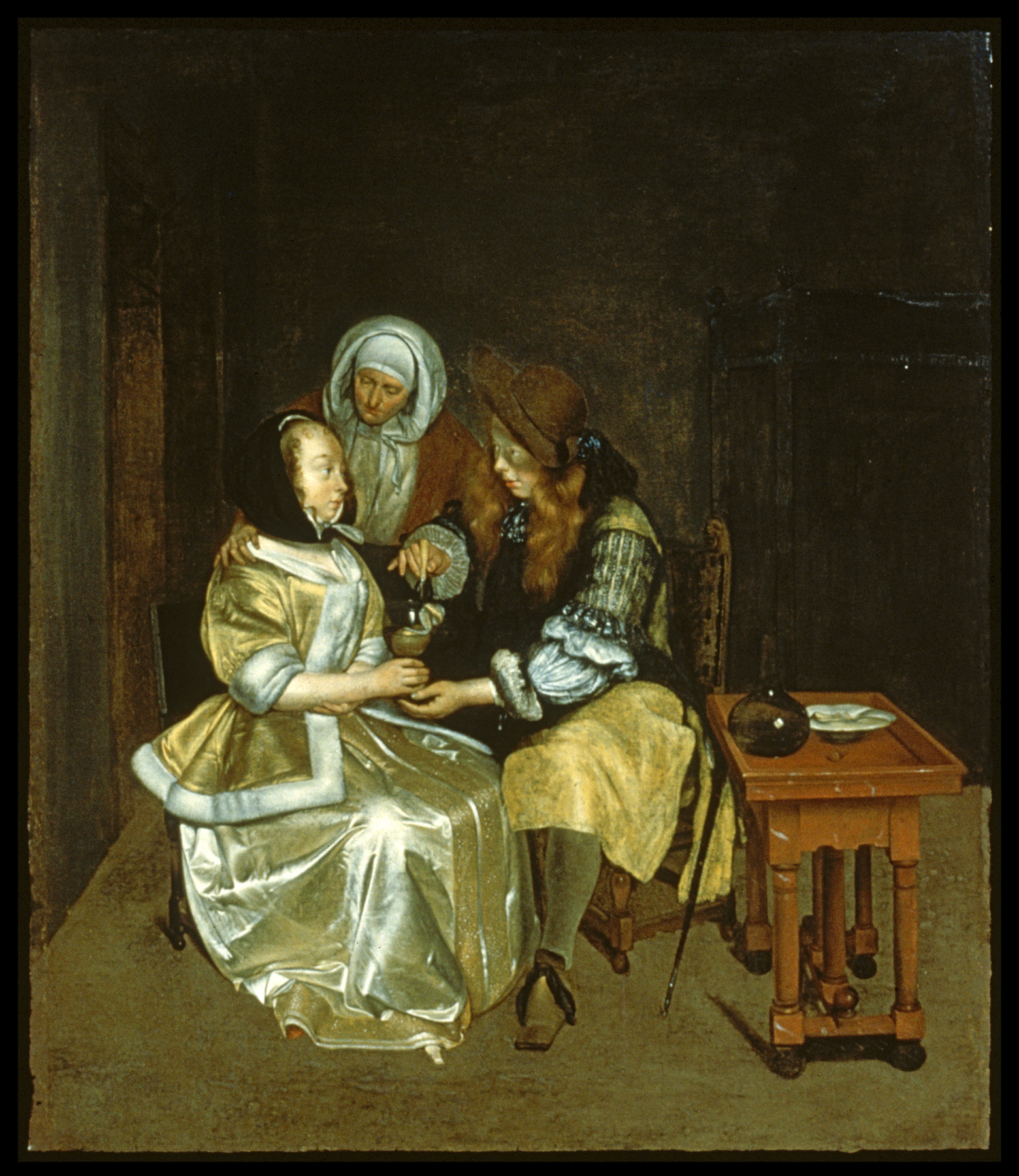 By the mid-1600s, the intimate lives of the middle class joined the raucous lives of the poor as subjects for painting. Here, an attentive young man tenderly mixes a "restorative" glass of lemonade for the young woman, presumably to convey his own feelings to the "love-sick" young woman under the watchful eyes of a chaperon. Ter Borch was a talented portraitist as well as painter of interiors with figures in satins and other rich fabrics (although the effect is diminished here by an over cleaning of the surface decades ago). The models for the young people were the artist's half sister and brother, Gersina and Moses, who were also painters. A first version of this composition was painted around 1663. With the assistance of his workshop, Ter Borch then made additional versions with small variations.